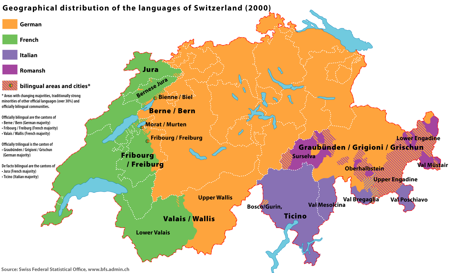 Map of the geographical distribution of the official languages of Switzerland (2000)